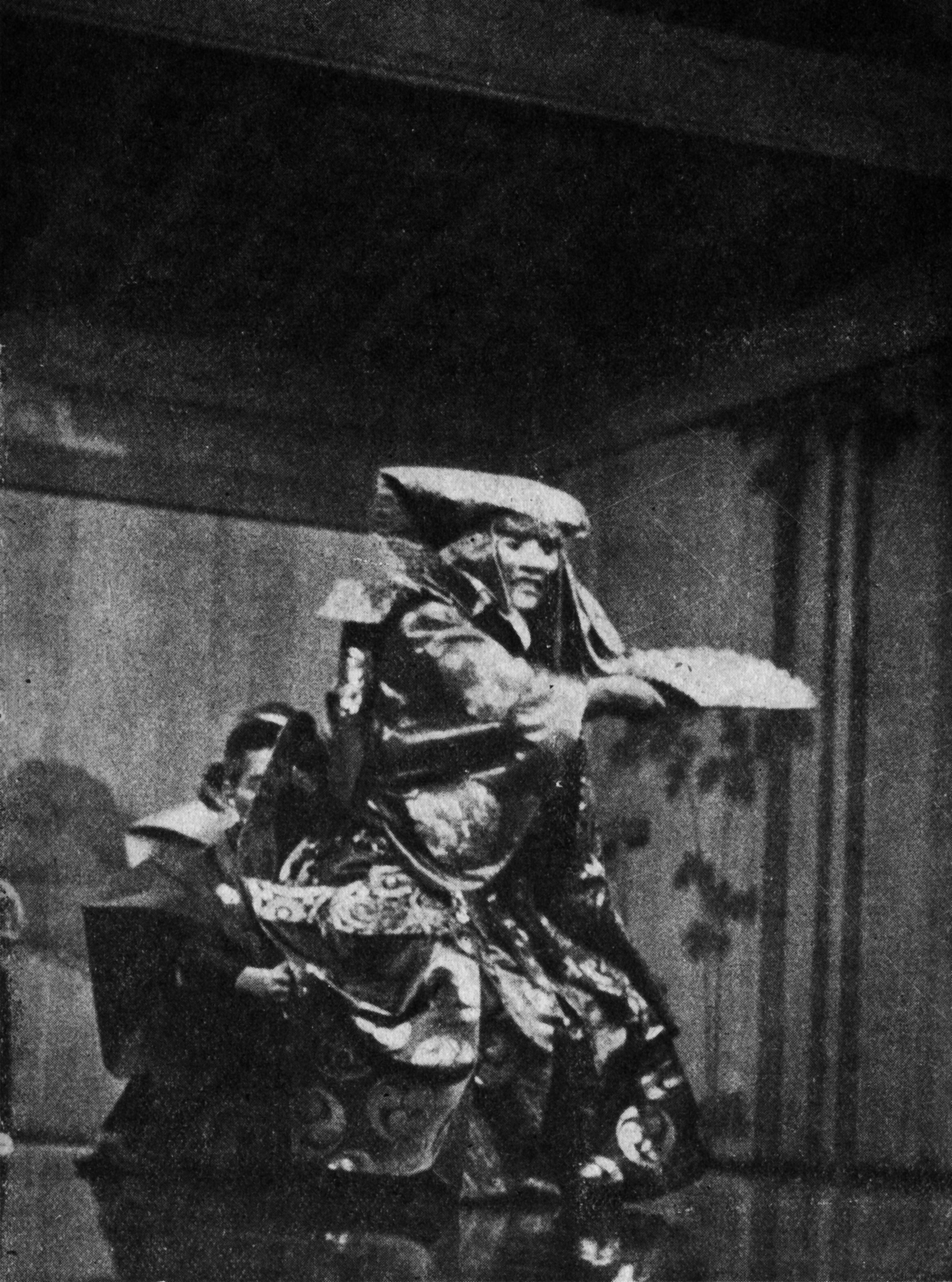 stage photo: Noh play Yorimasa, UMEWAKA Rokuro(54th, aka UMEWAKA Minoru(2nd)